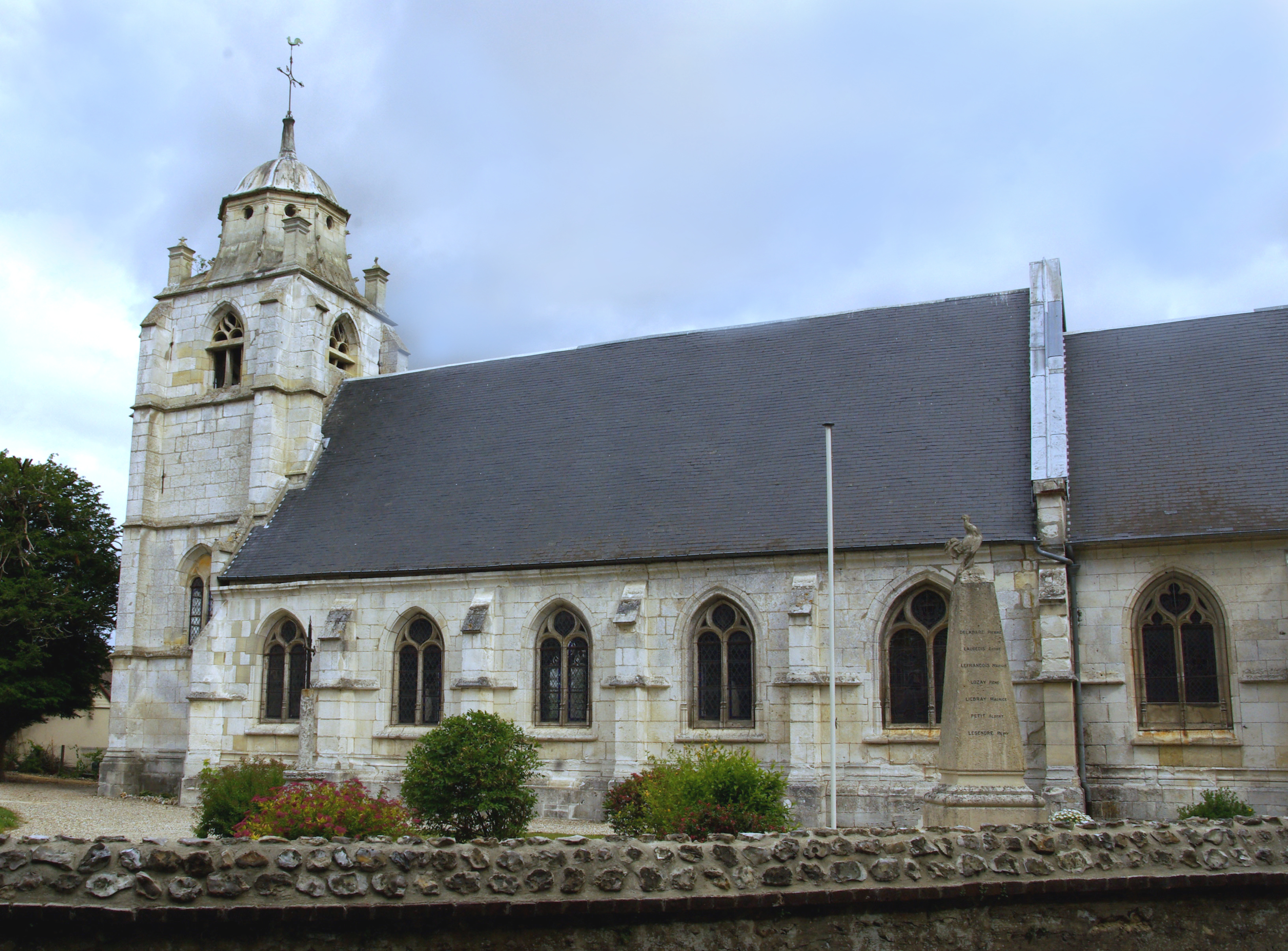 Church Saint-Michel in Hénouville